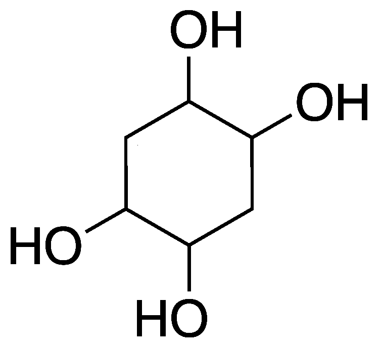 Structural diagram of the cyclitol 1,2,4,5-cyclohexanetetrol (cyclohexane-1,2,4,5-tetrol, 1,2,4,5-tetrahydroxycyclohexane). There are 7 stereoisomers with this structure, that differ on the position of the hydroxyls relative to the mean plane of the ring. Three of those (1,2,4,5/0, 1,2/4,5 and 1,5/2,4) are achiral, and the other 4 constitute 2 enantiomer pairs (D,L-1,2,4/5 and D,L-1,4/2,5). This count considers the ring planar, and does not take into account geometric isomerism due to distortion of the ring from planarity (the "boat" and "chair" conformations). This image was created by editing File:Conduritol-generic.png, uploaded by User:DMacks, with the Gimp editor.